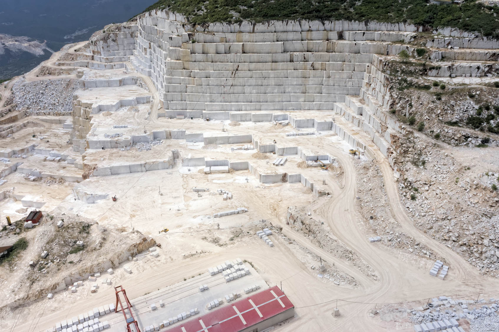 Marble Quarry in Northern Greece (Stenopos Kavala)